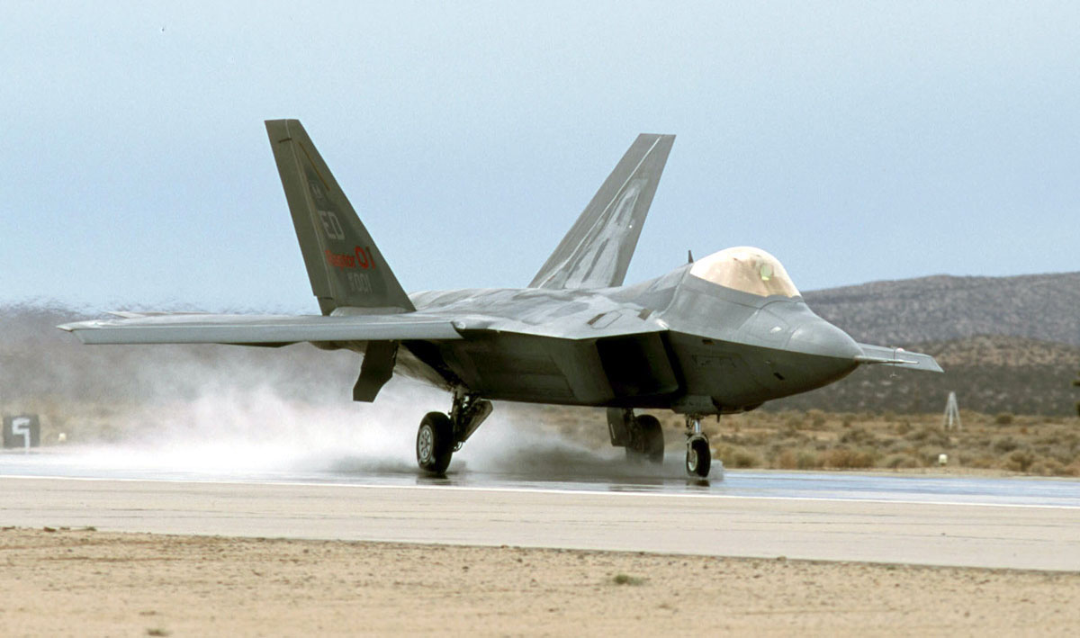 EDWARDS AIR FORCE BASE, Calif. -- Raptor 4001 undergoes wet-runway testing during a rare rainy day here in the Mojave Desert. The F-22 was tested at speeds of 30, 60 and 90 knots. This test is just one of thousands that the F-22 Combined Test Force is putting the Raptor through during the most extensive test program that any fighter aircraft has undergone.